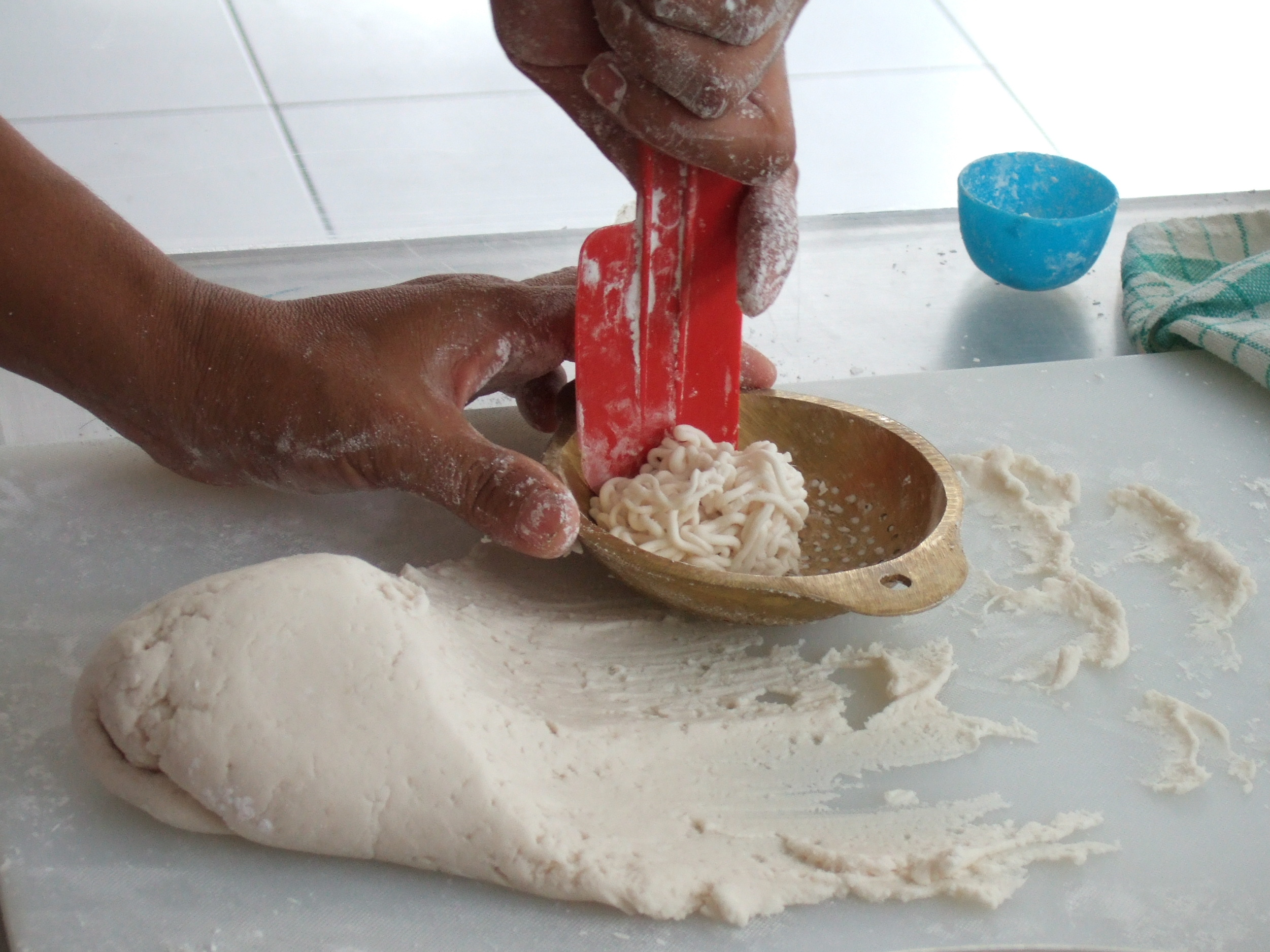 Making pempek, Indonesian fish cake made of fish dough (Jakarta, Indonesia)